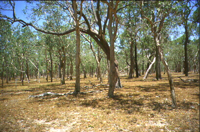 Corymbia clarksoniana/Meleleuca viridiflora savanna, Northern Australia